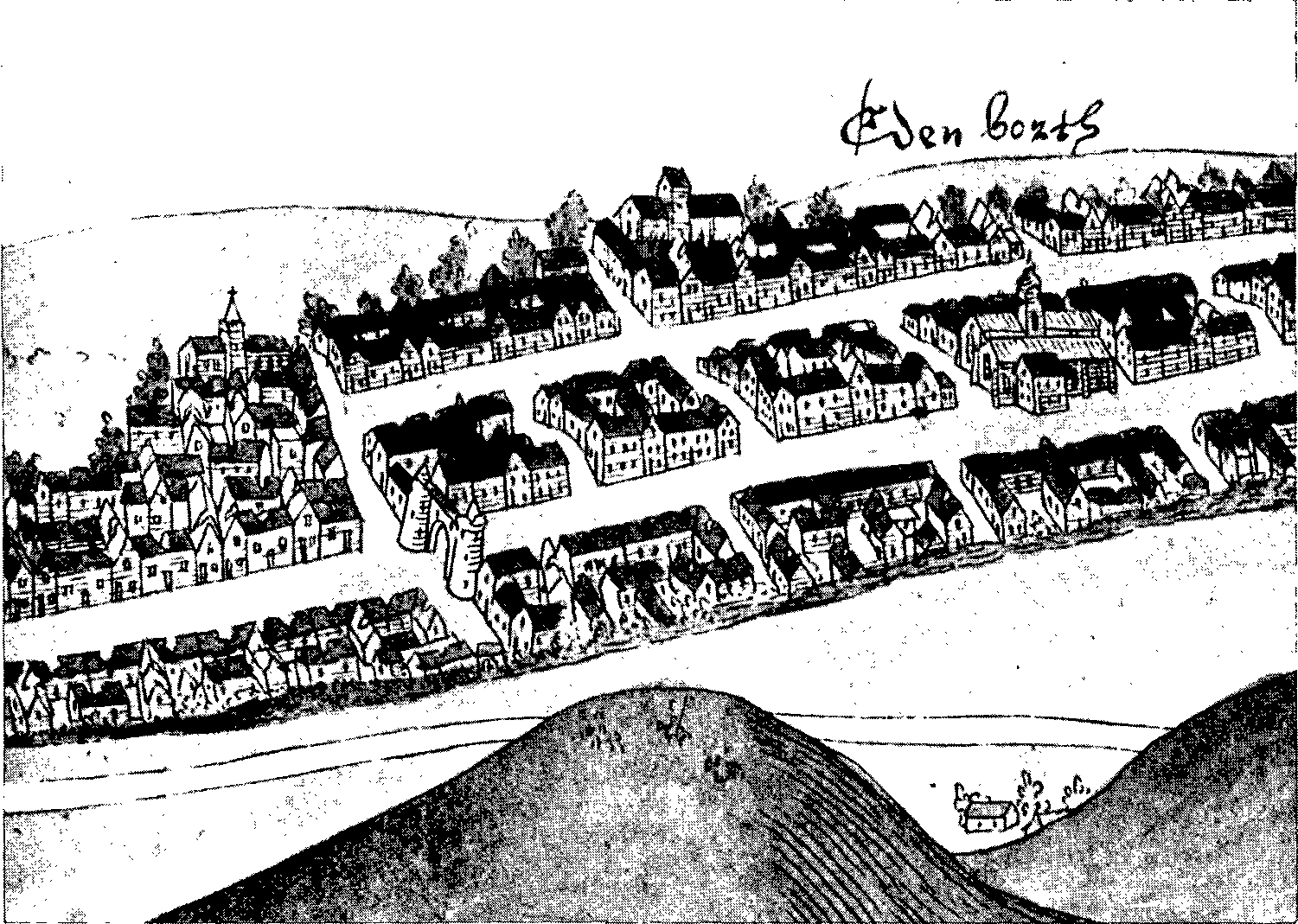 Sketch of 1544 showing part of Edinburgh, including the Netherbow Port